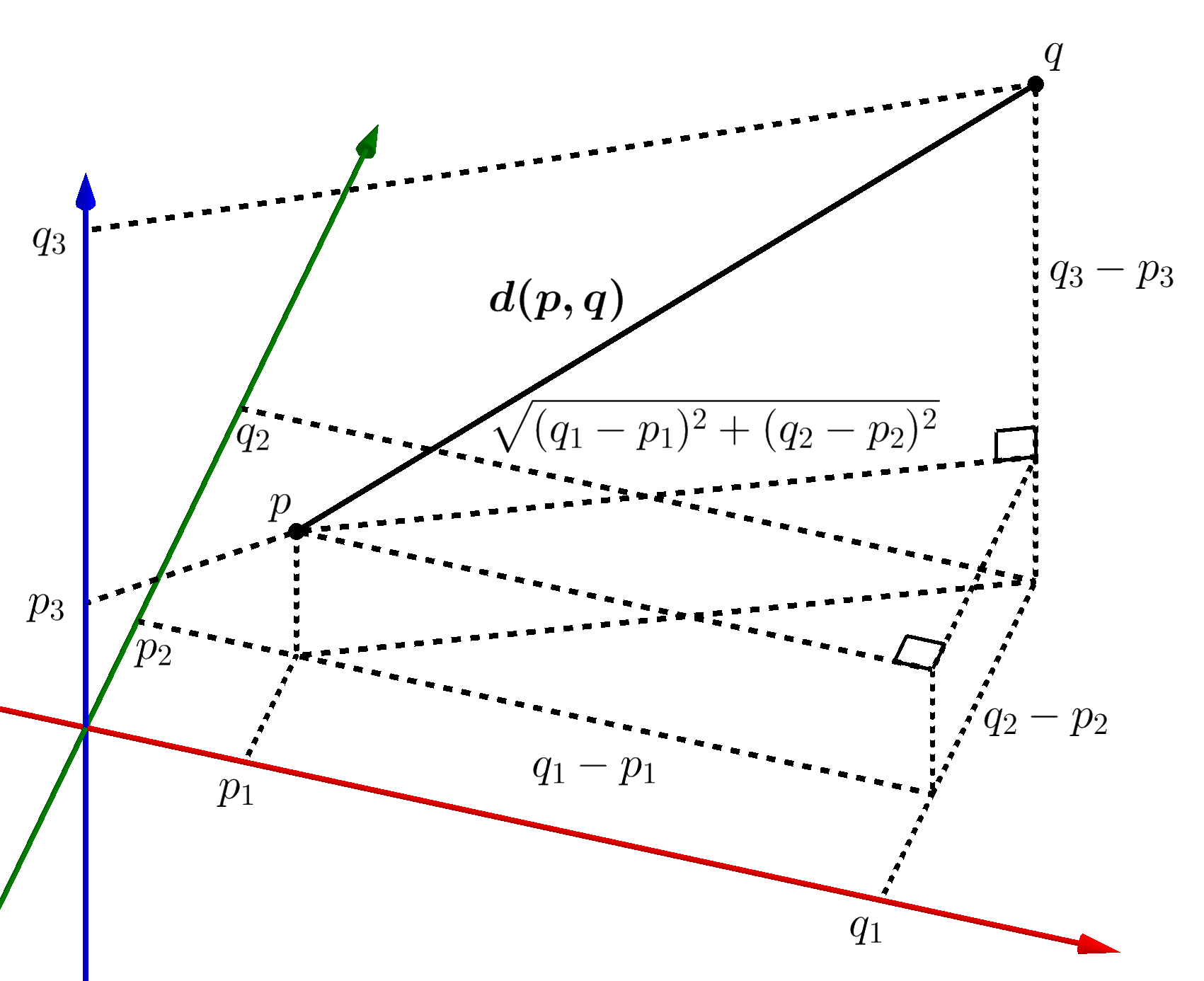 euclidean distance illustration